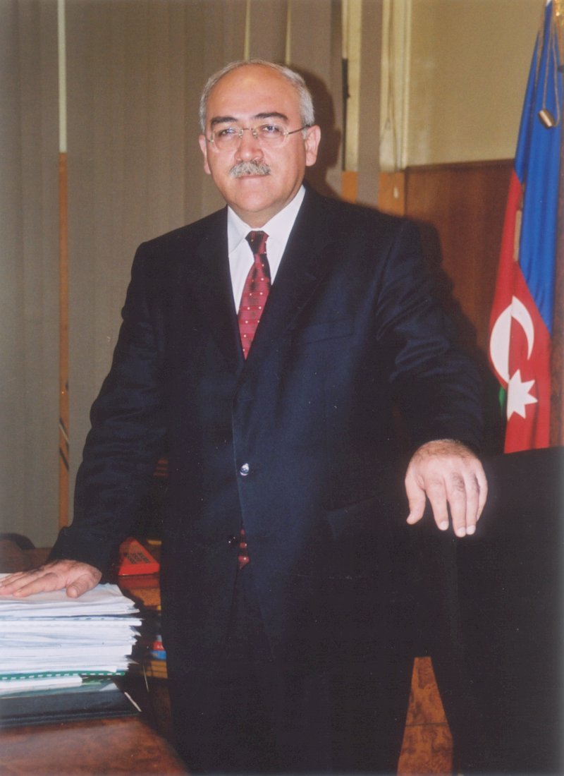 Leader of Musavat, Isa Gambar